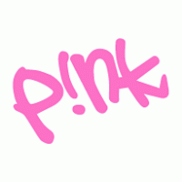 P!nk logo